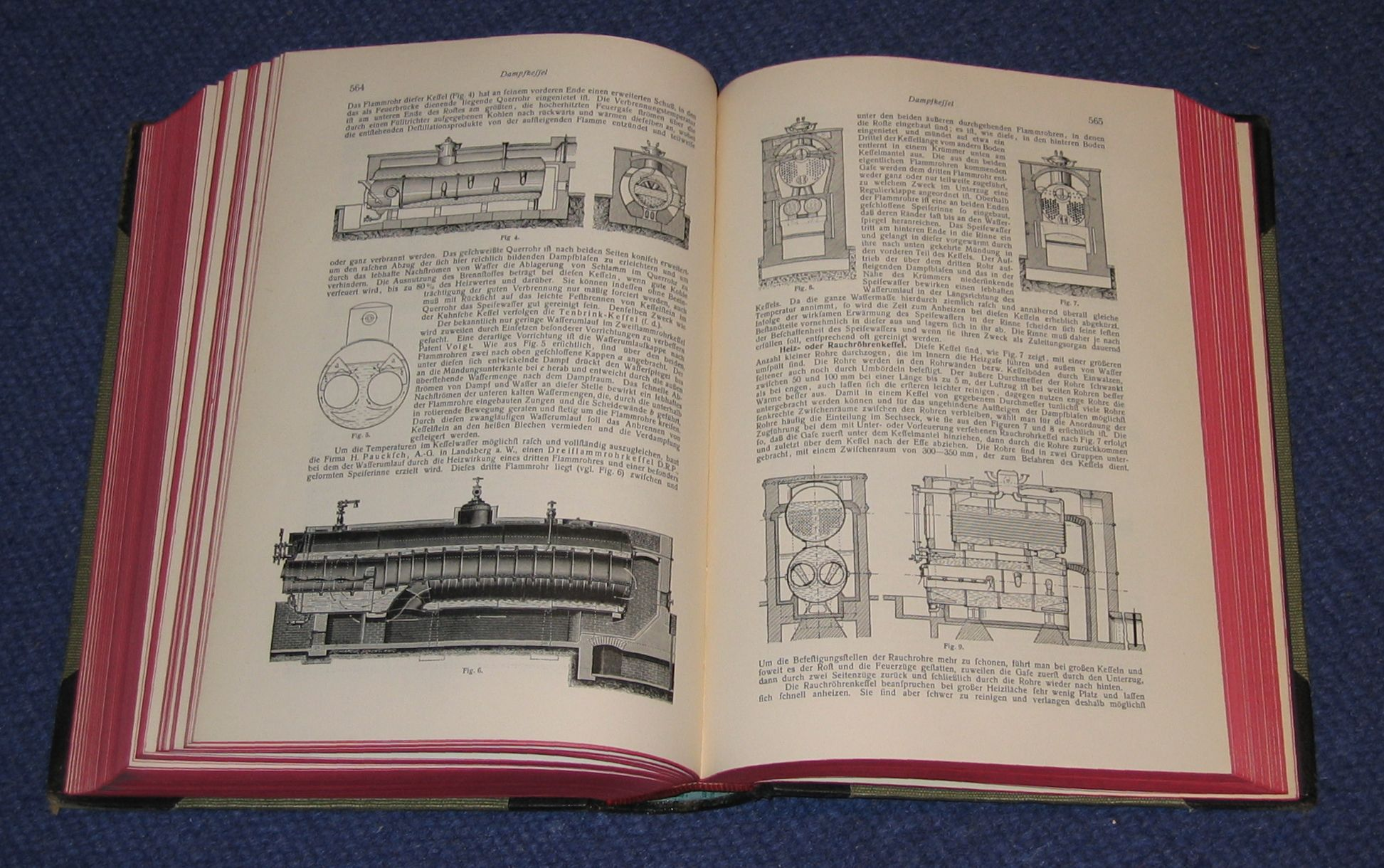 Sample book pages. Otto Lueger, "Lexikon der gesamten Technik", 8 volumes, 1904 (public domain).